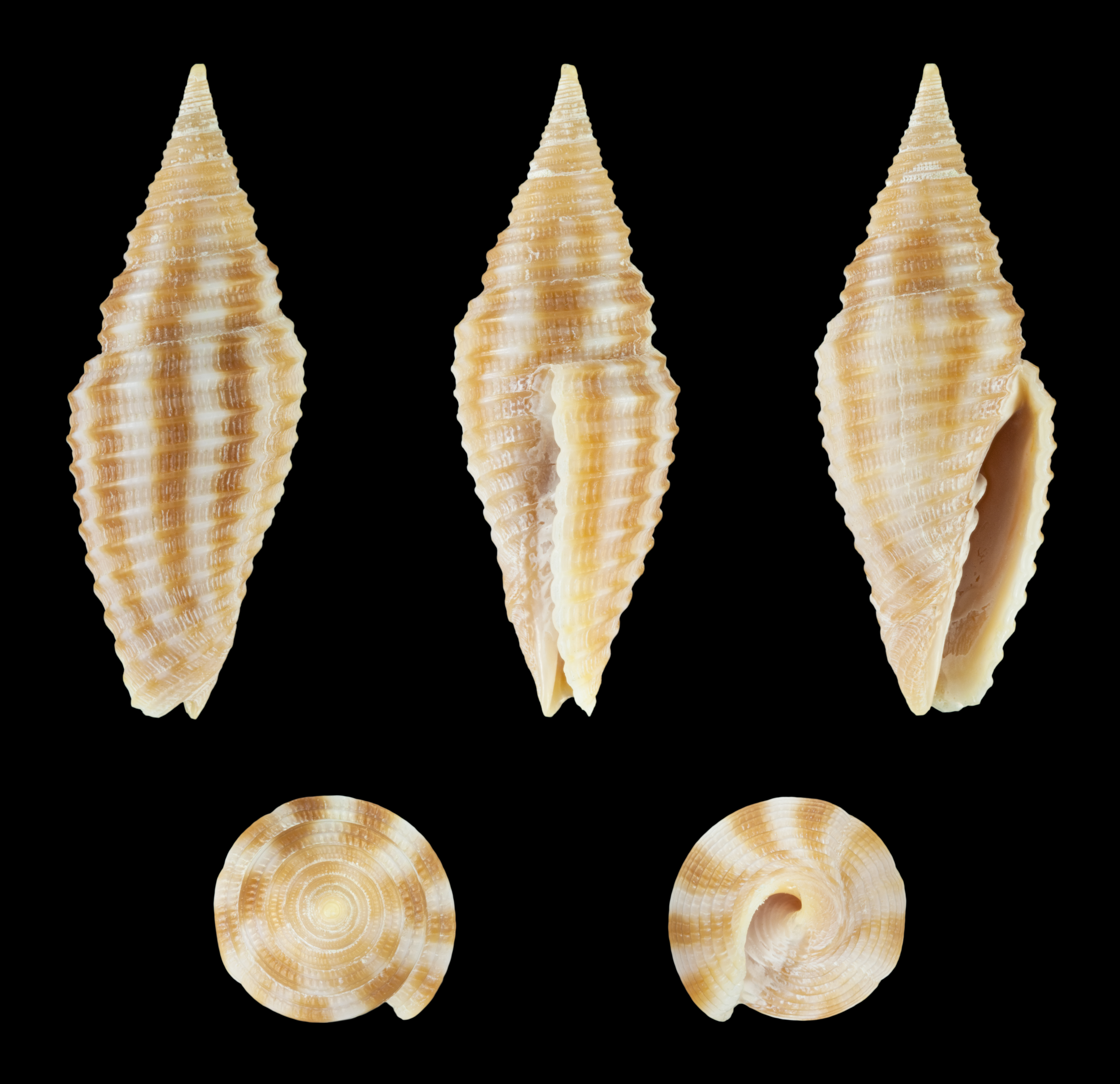 Imbricaria flammea (Quoy & Gaimard, 1833); Length 2.2 cm; Originating from the Palawan, Philippines; Shell of own collection, therefore not geocoded.